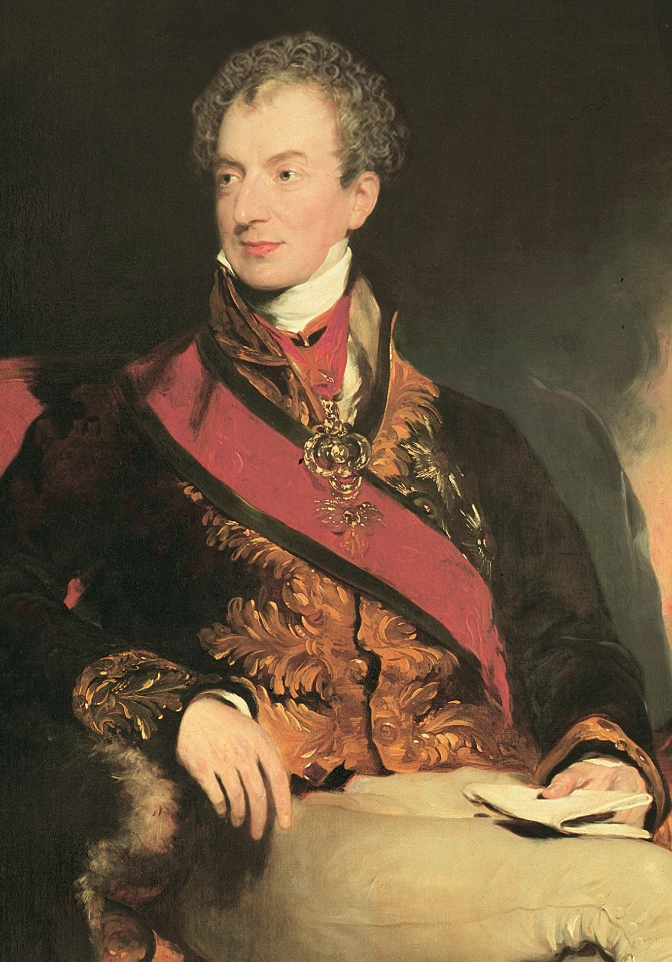 Klemens Wenzel von Metternich (1773-1859), German-Austrian diplomat, politician and statesman.